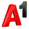 Logo of A1